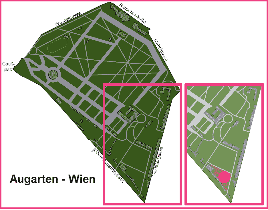 Augartenspitz -- the area in question as of 2011